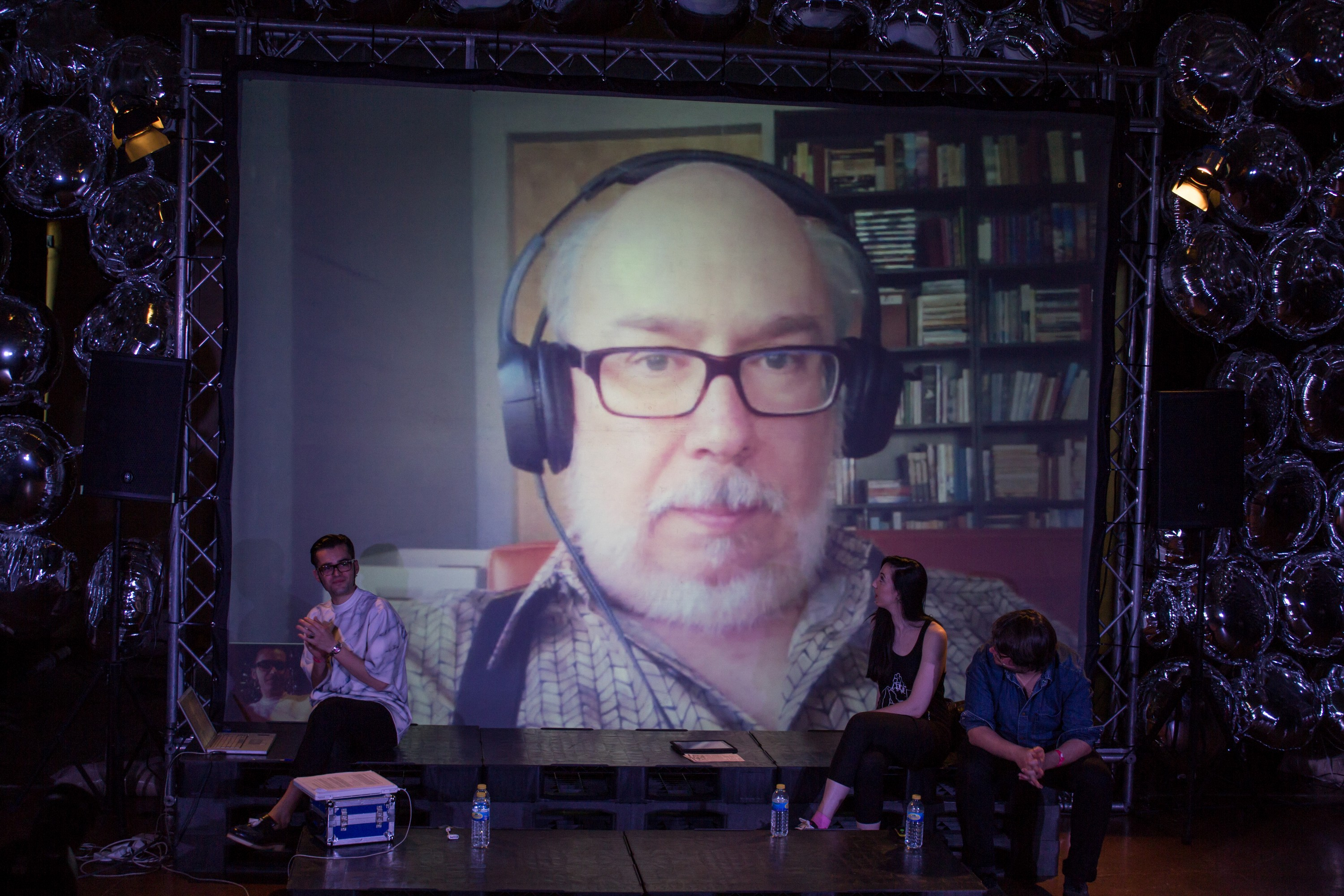 Henry Jenkins III (born June 4, 1958) is an American media scholar and currently a Provost Professor of Communication, Journalism, and Cinematic Arts, a joint professorship at the USC Annenberg School for Communication and the USC School of Cinematic Arts.